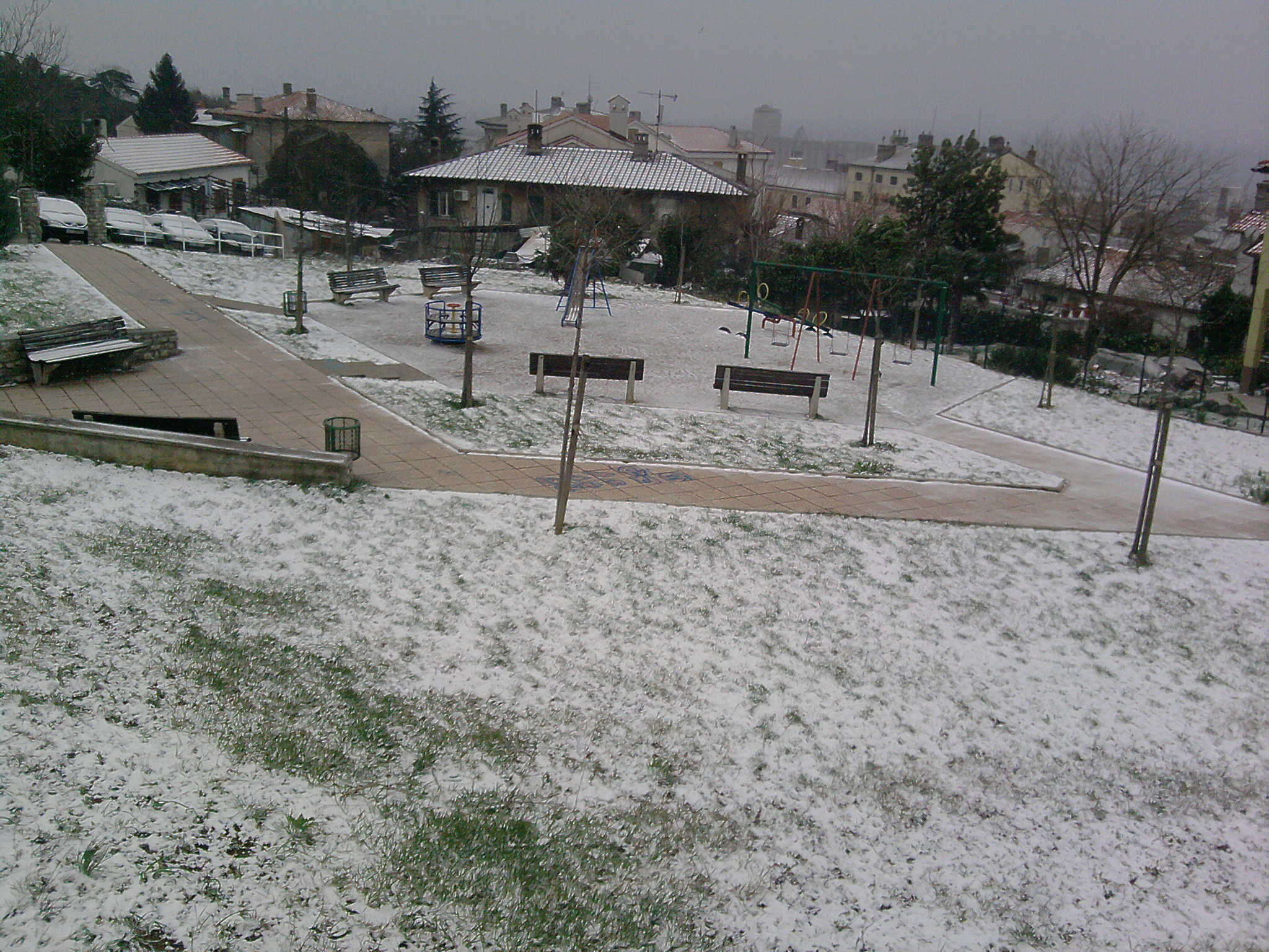 Snow in Rijeka